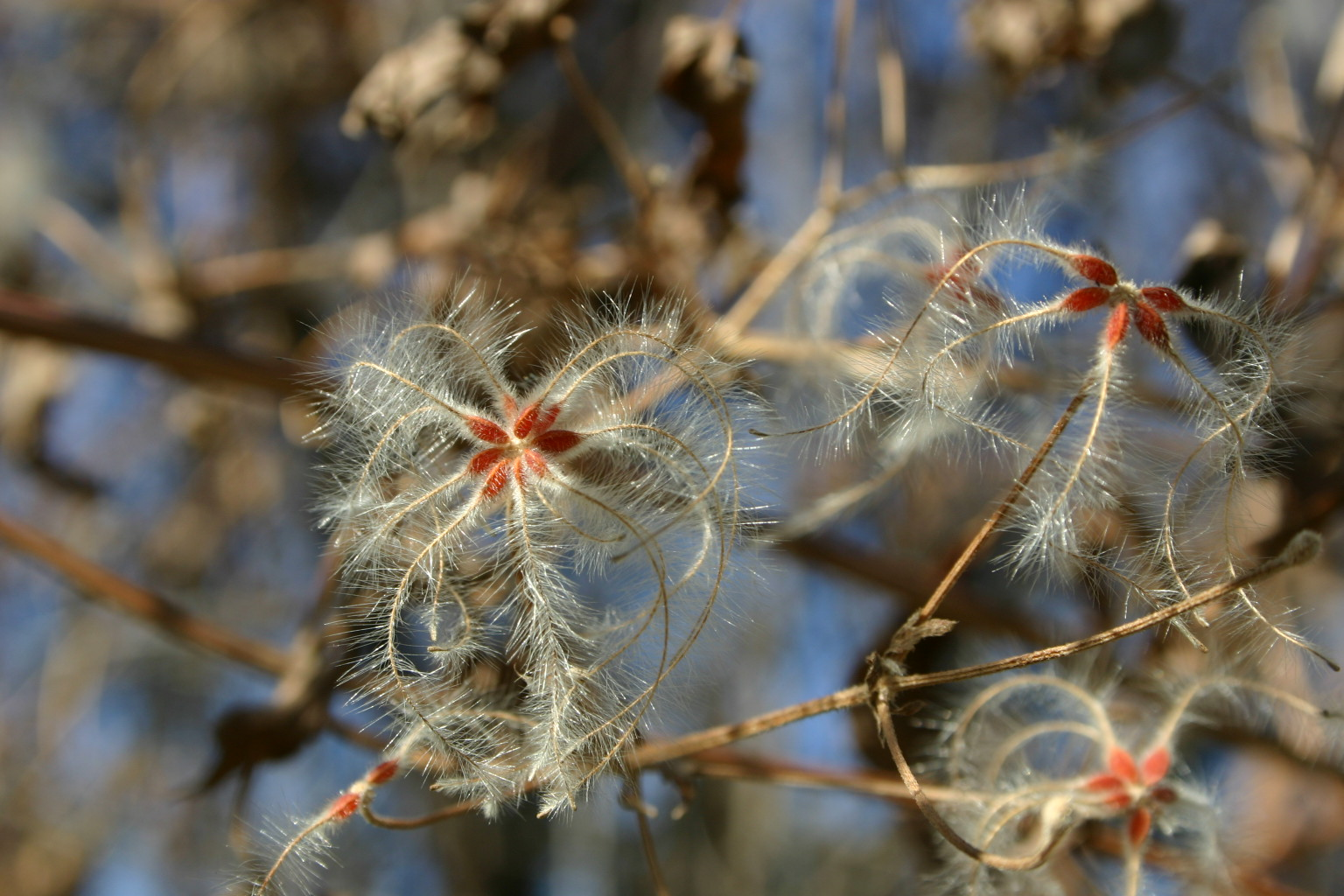 Achenes of Clematis brachiata Thunb. growing in Johannesburg, South Africa